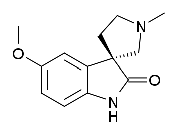 Structure of horsfiline